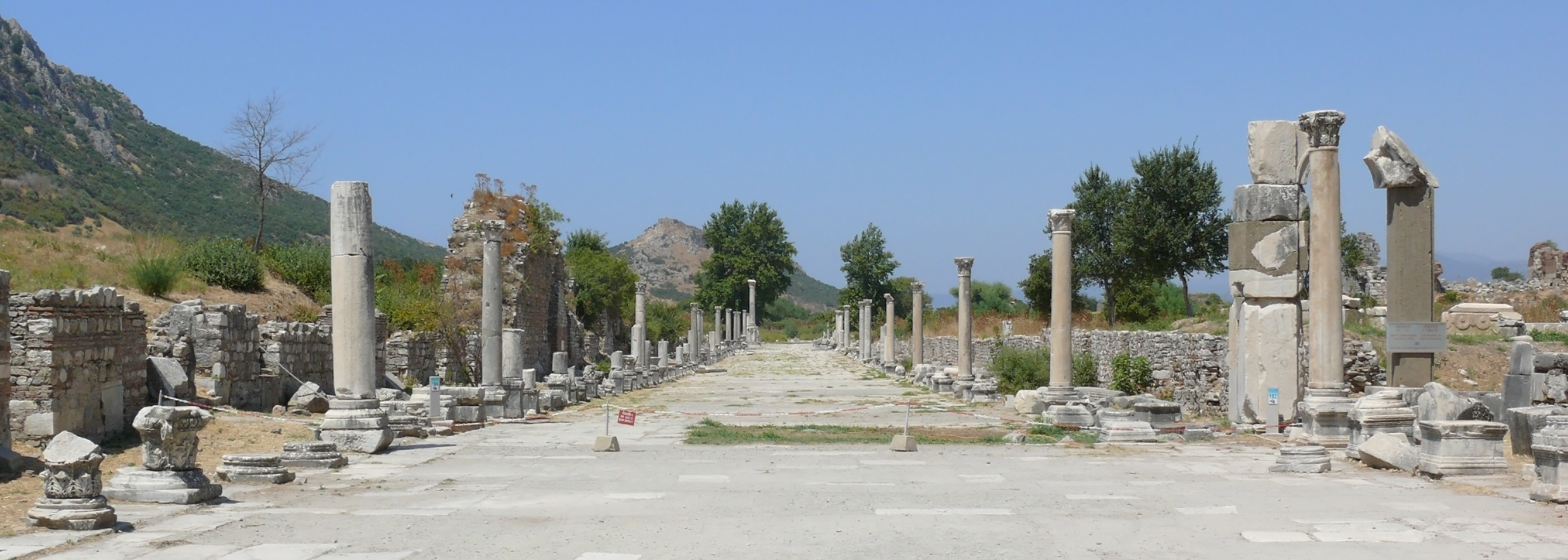 Street scene at the archeological exacavations at Ephesus. Ephesus (Ancient Greek Ἔφεσος, Turkish Efes) was an ancient Greek city on the west coast of Anatolia, near present-day Selçuk, Izmir Province, Turkey.